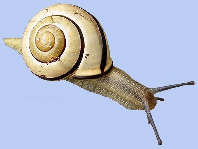 Cepaea nemoralis; land snail commonly occurring in the Netherlands.